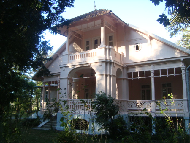 The house museum of Niko Nikoladze